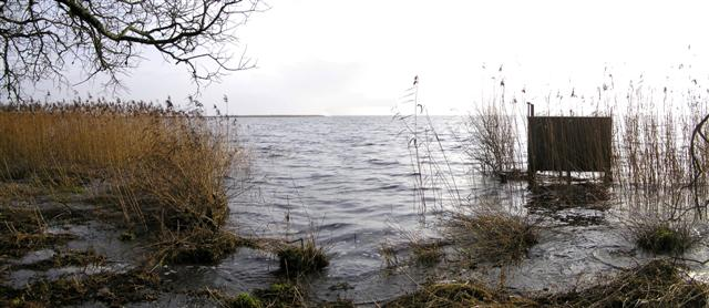 H9472 : Lough Neagh at Killywoolaghan